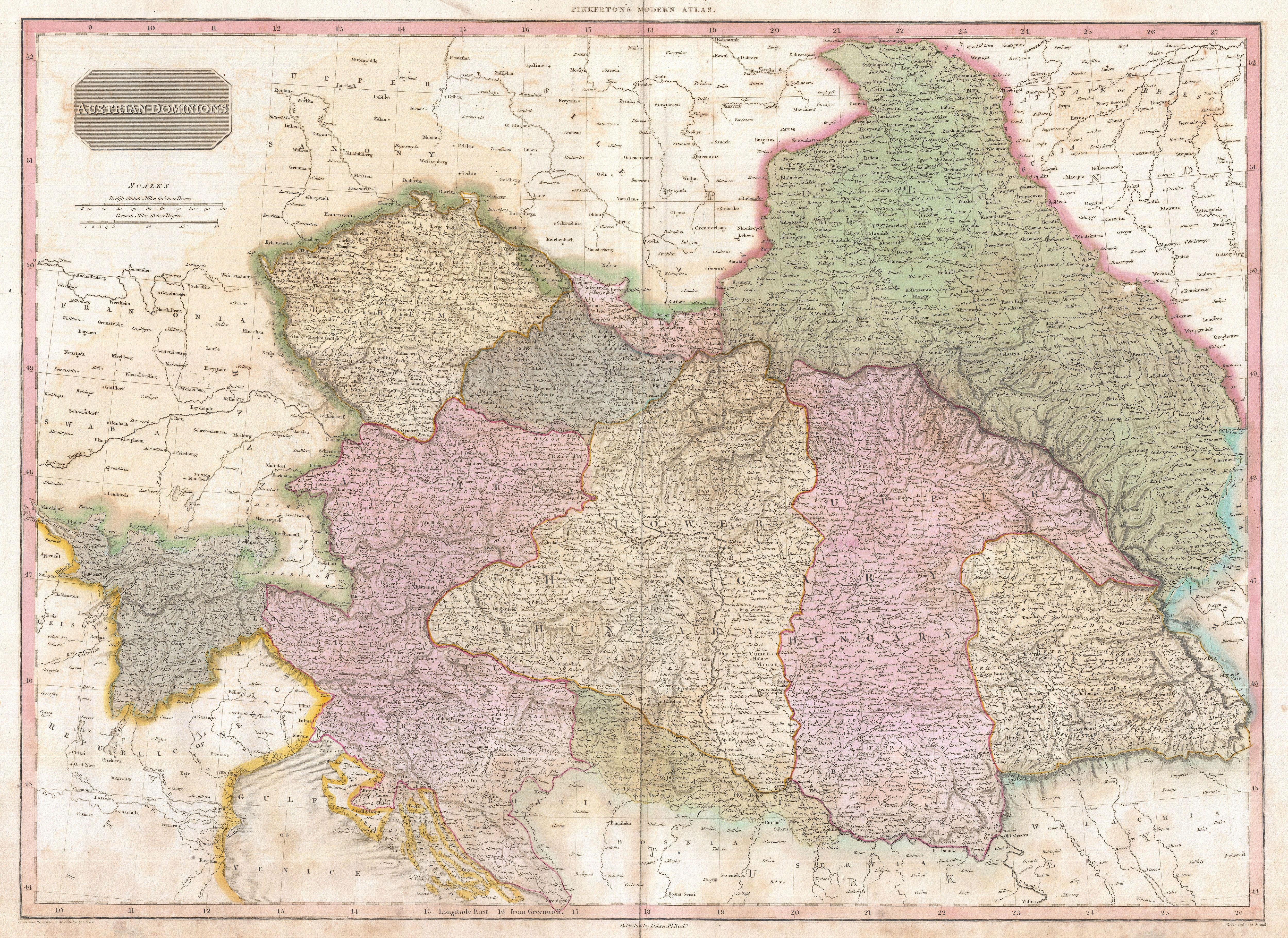 Pinkerton's extraordinary 1818 map of the Austrian Dominions. Covers the Austro-Hungarian Empire at the height of its influence. Includes Bohemia, Tyrol, Austria, Croatia, Sclavonia, Hungary, Transylvania, and parts of Poland. Offers considerable detail with political divisions and color coding at the regional level. Identifies cities, towns, castles, important battle sites, castles, swamps, mountains and river ways. Title plate in the upper left quadrant. Two mile scales, in German and British Statute Miles, also appear in the upper left quadrant. Drawn by L. Herbert and engraved by Samuel Neele under the direction of John Pinkerton. This map comes from the scarce American edition of Pinkerton’s Modern Atlas, published by Thomas Dobson & Co. of Philadelphia in 1818.